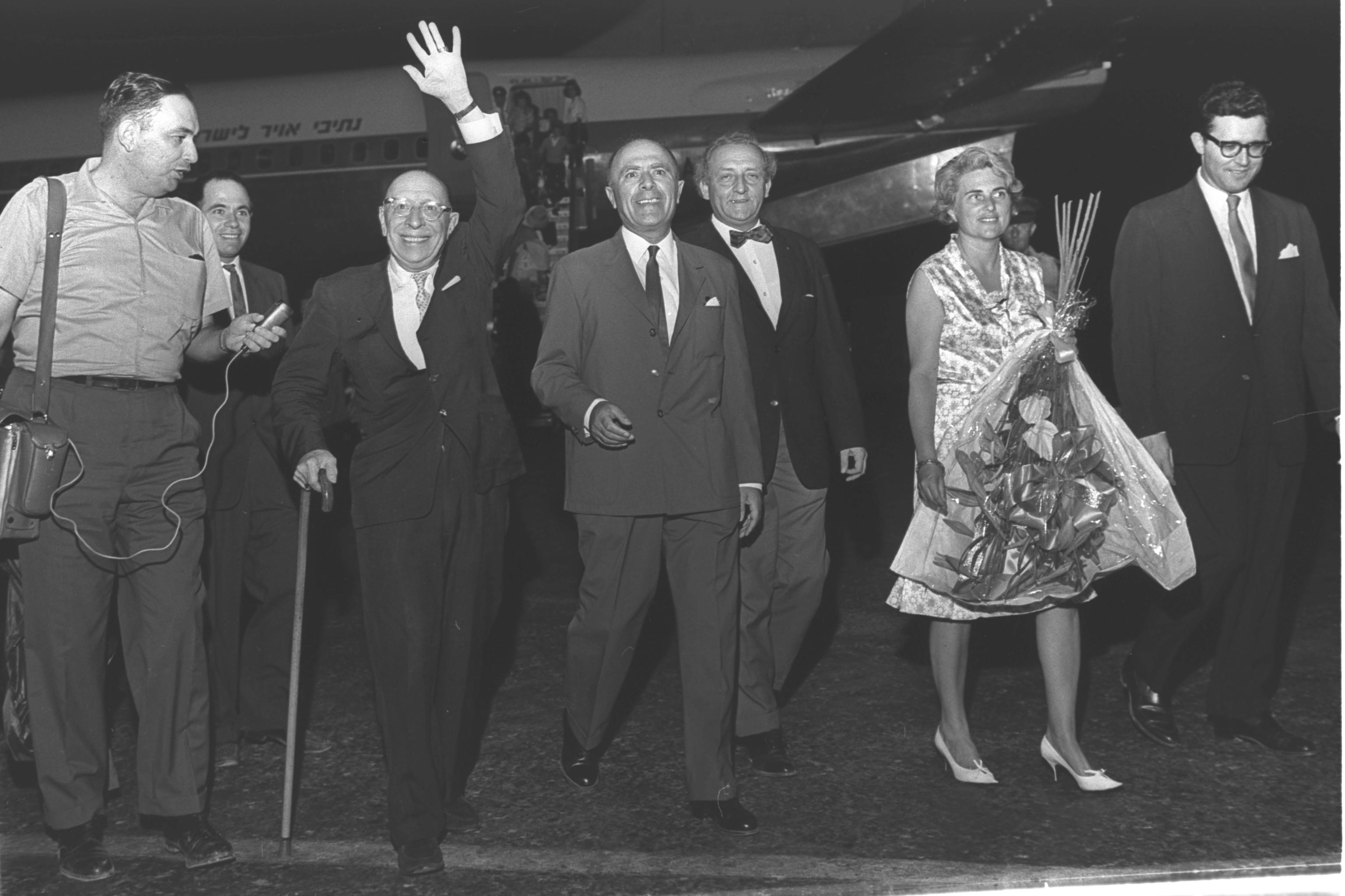 Igor Stravinsky on a visit to Israel, 1962. From left, Kol Israel reporter Nathan Dunevitz, Igor Stravinsky, Aharon Zvi Propes, pianist Frank Peleg, Mrs. Hana Shapira, violinist Zvi Zeitlin